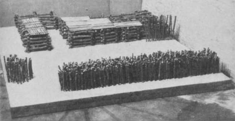 Scale model, 1:40, of the Bulverket in Lake Tingstäde, Gotland, Sweden. Model made by the Swedish History Museum in January 1927.